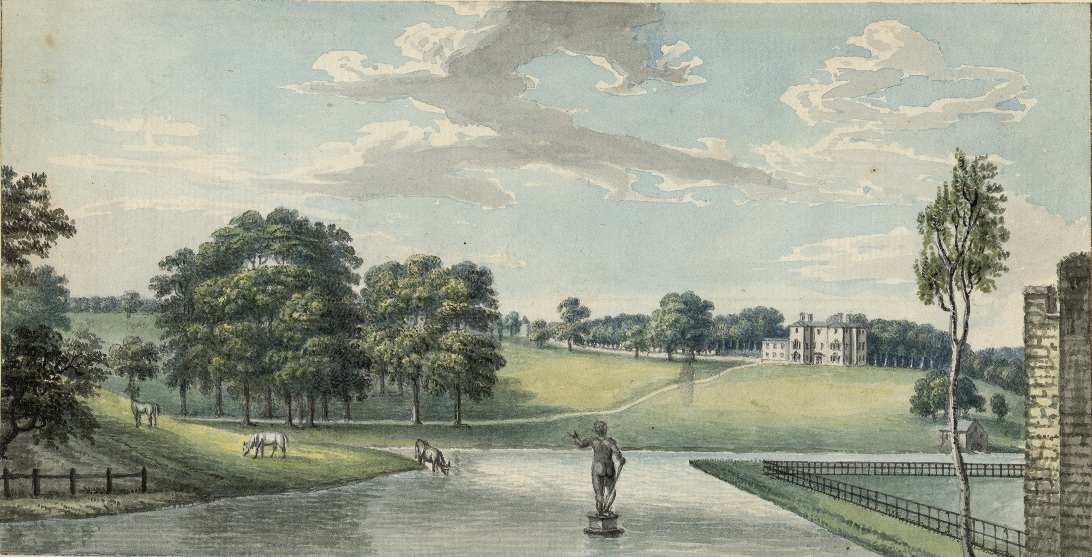 An image from a set of 8 extra-illustrated volumes of A tour in Wales by Thomas Pennant (1726-1798) that chronicle the three journeys he made through Wales between 1773 and 1776. These volumes are unique because they were compiled for Pennant's own library at Downing. This edition was produced in 1781. The volumes include a number of original drawings by Moses Griffiths, Ingleby and other well known artists of the period. Thomas Pennant (1726-1798)